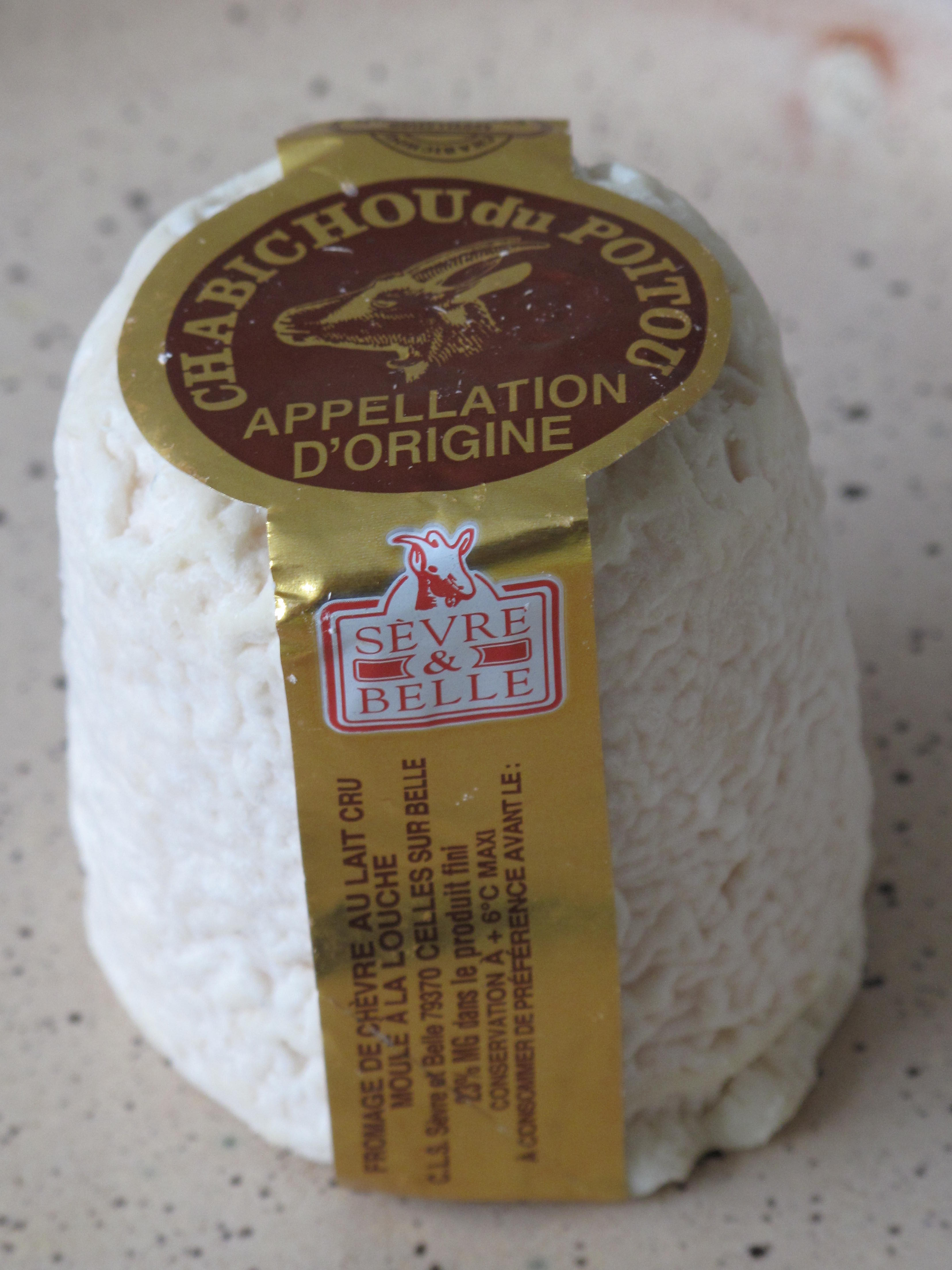 Chabichou du Poitou goat's cheese with its term of origin ("Appellation d'origine")